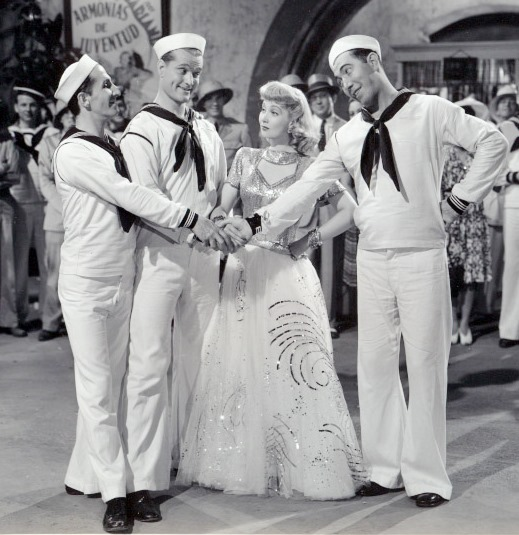 L. to R. : Ben Blue, Red Skelton, Ann Sothern & Rags Ragland in Panama Hattie (1942 film) - publicity still (cropped)